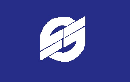 Flag of Nirasaki Yamanashi